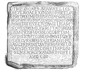 Dedication to the Emperor Severus Alexander by First Aelian Cohort of Spaniards when the built a cavalry drill-hall, Castra Exploratorum (Netherby) found 1762